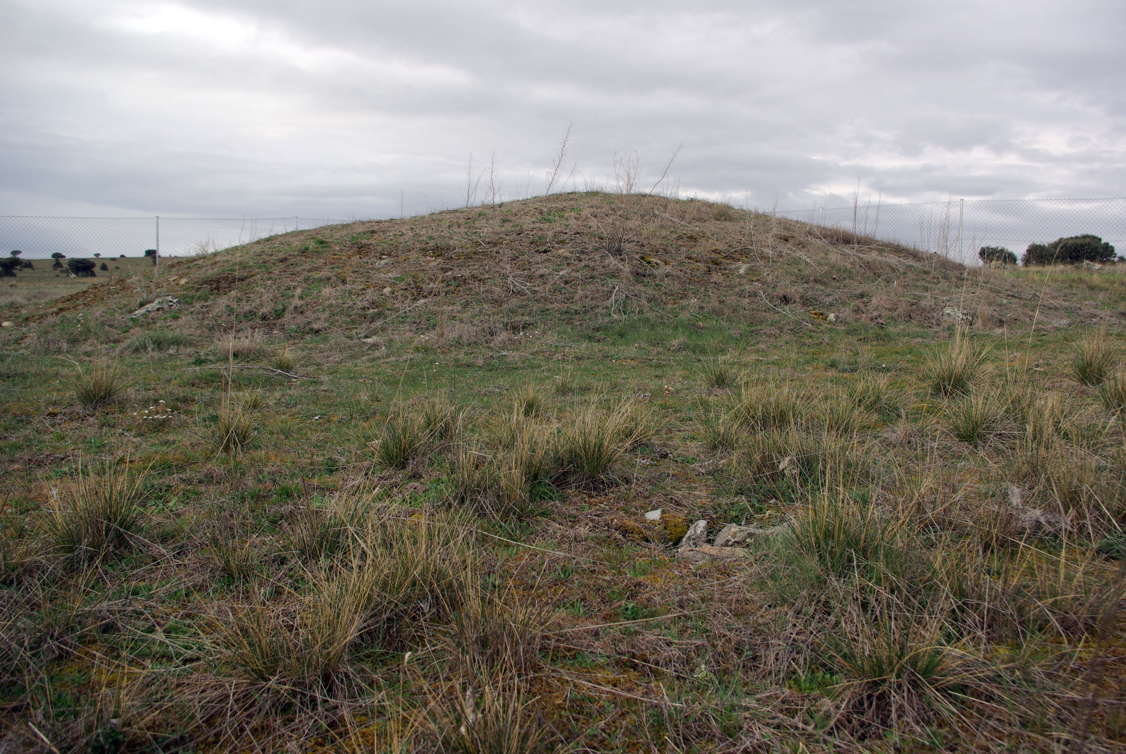 Tumulus of Los Tiesos, near Urraca Miguel, Province of Ávila (Spain)